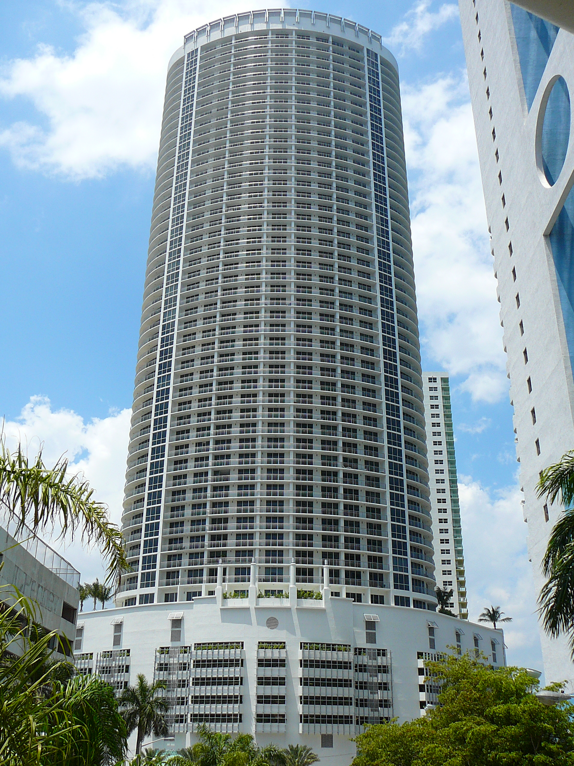 Digital photo taken by Marc Averette. Frontal view of the Opera Tower in downtown Miami, FL. 5/10/2008